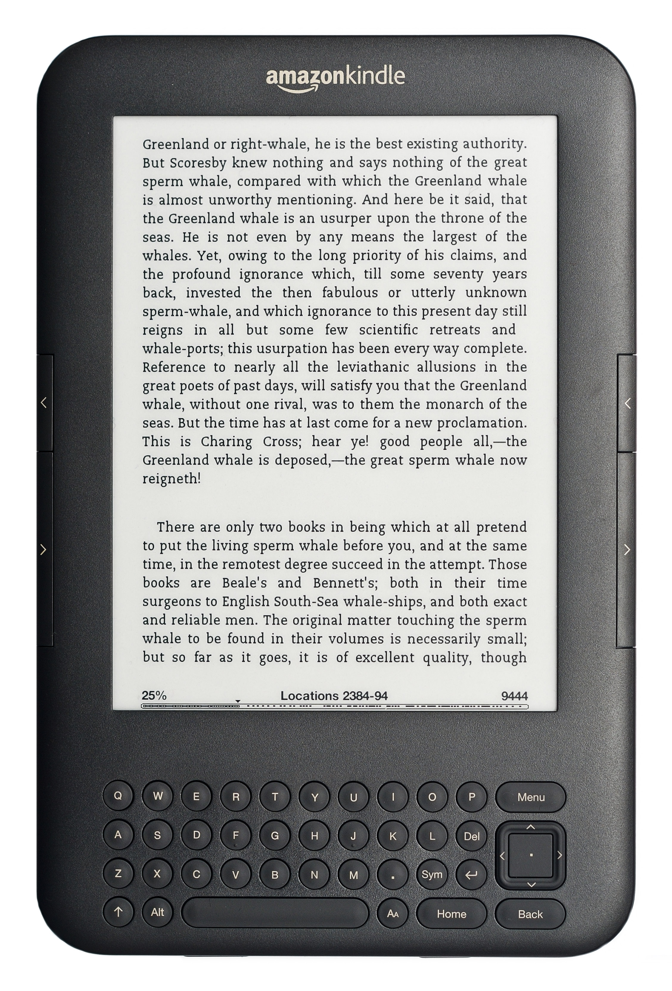 Third generation Amazon Kindle, showing text from the novel Moby-Dick.